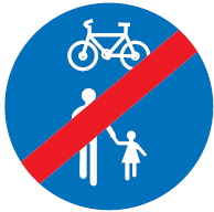 Luxembourg road sign diagram